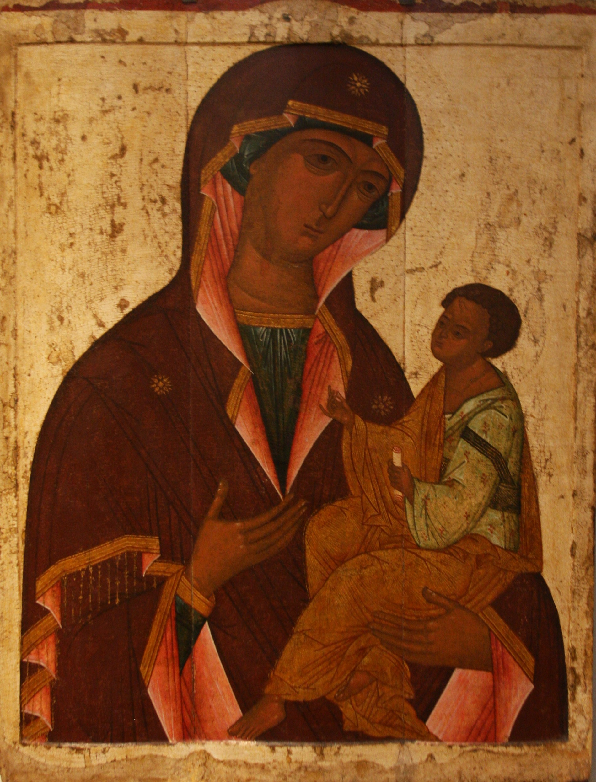 Russian icon, mid 1500s, depicting Santa Maria Gruzhinskaja (Mother of God, the Georgian). National Museum ( NMI 264, Stockholm.